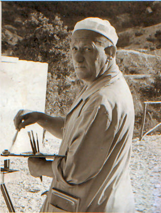 Hermann Wilhelm in Portonovo, Italy 1958